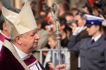 Pogrzeb pary prezydenckiej.